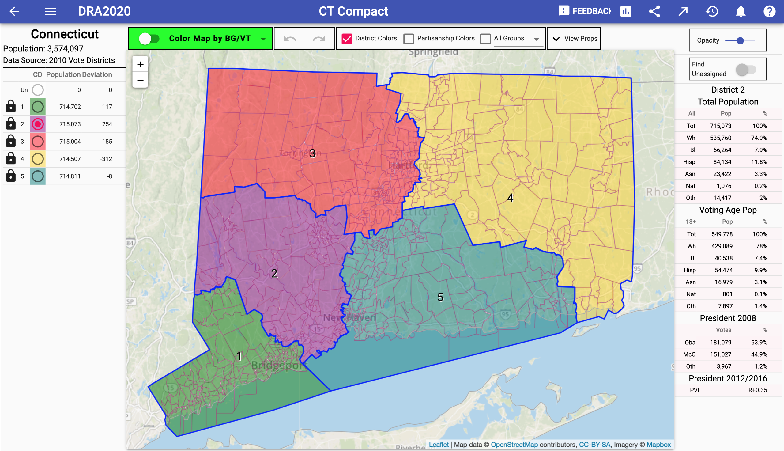 Compact congressional redistricting of Connecticut using Dave's Redistricting 2020